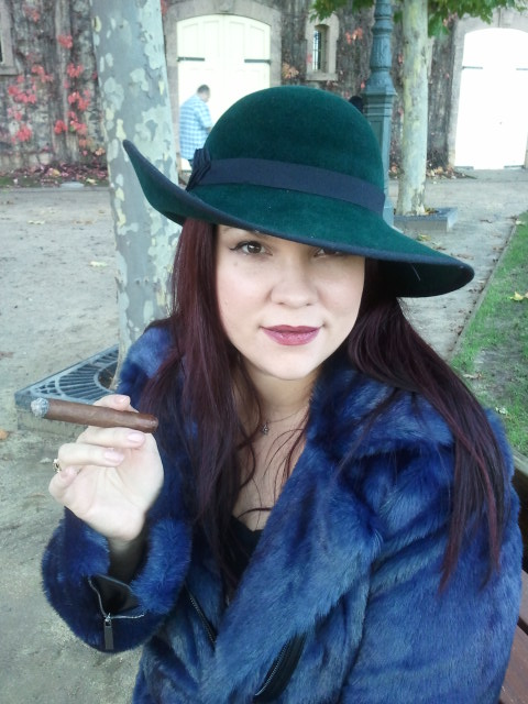 Rain Graves with Cigar, at Inglenook.